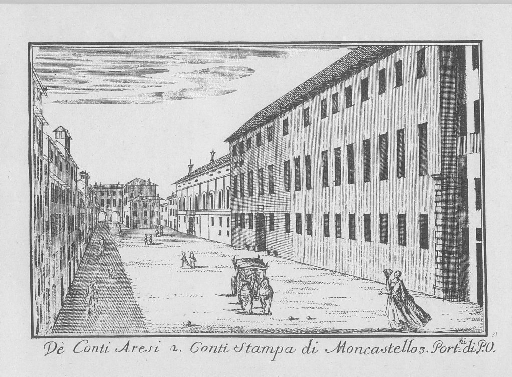 Marc'Antonio Dal Re (1697-1766), (from right to left): Milan, Palazzo Arese (no longer existing), Casa Fontana Silvestri, Porta Orientale-gate (no longer existing). This engraving is # 19 from a set of 88 Vedute di Milano ("Views of Milan") published by Del Re around 1745.